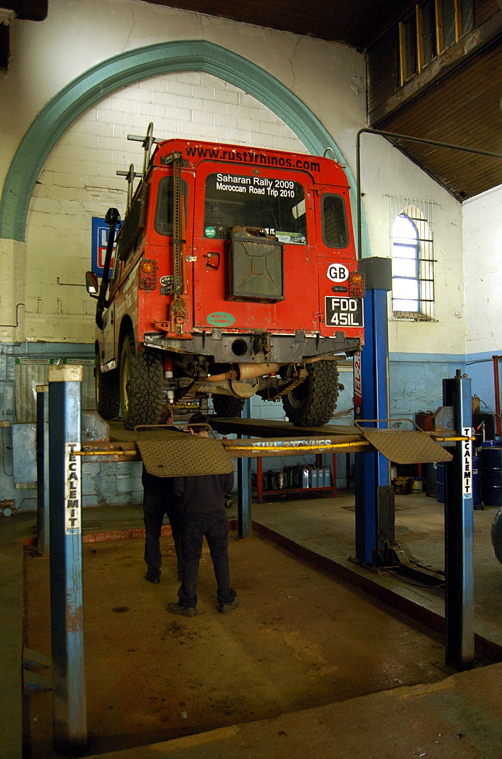 Red going through a chassis inspection during an MOT test.